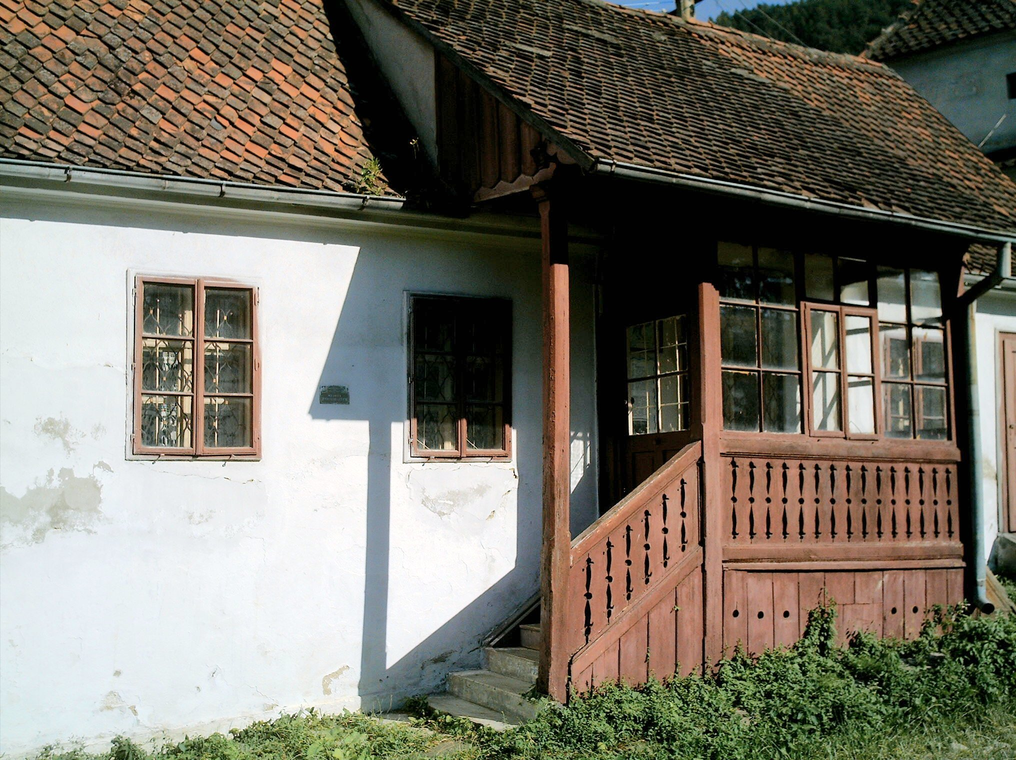 The Junii Braşoveni Museum (porch) — on grounds of the St Nicholas church in Braşov, Transylvania.